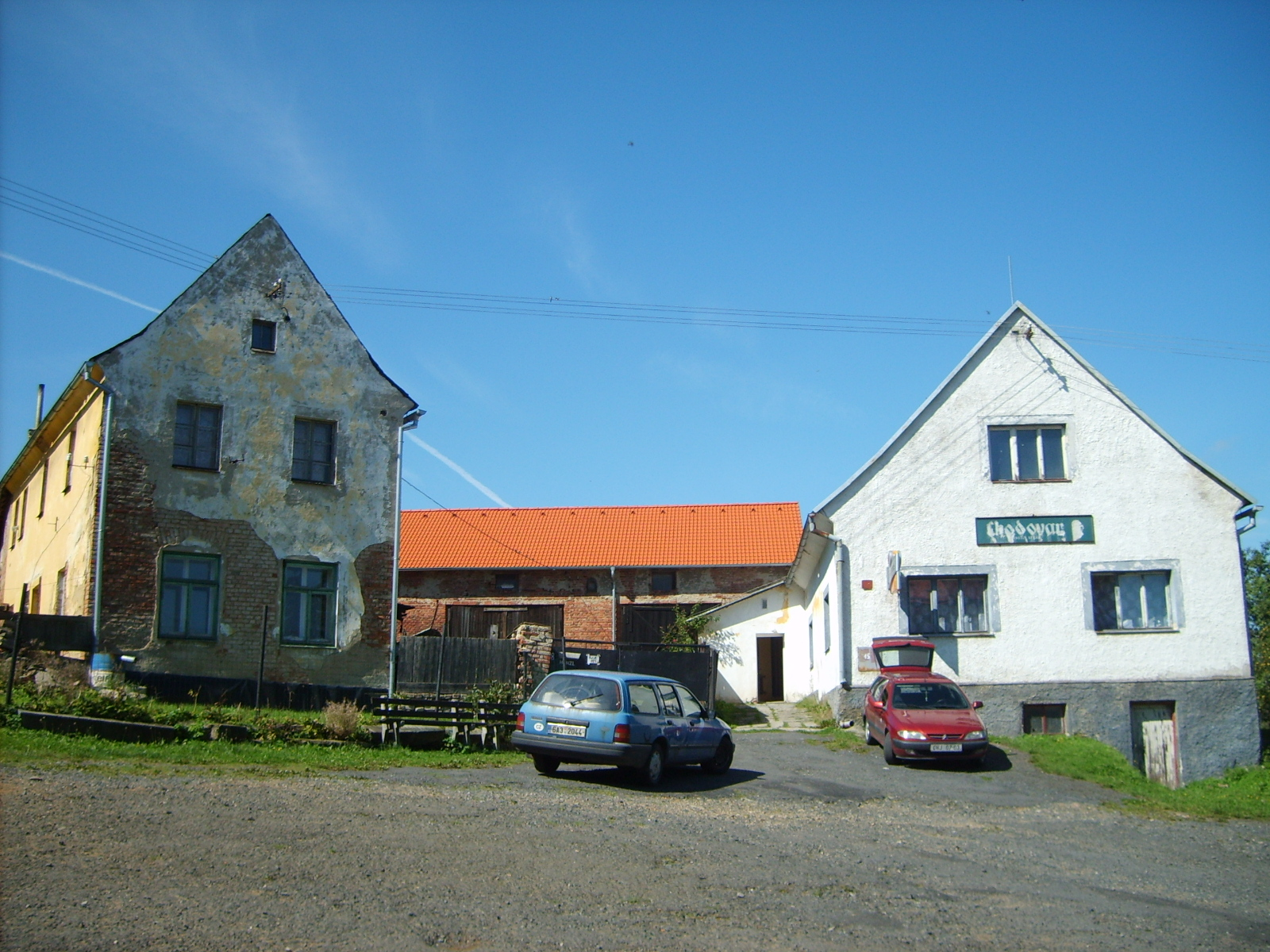 Old farms on village square in Vlkovice, Cheb District, Czech Republic.